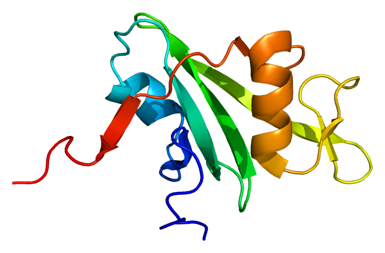 Structure of the ABL1 protein. Based on PyMOL rendering of PDB 1ab2.